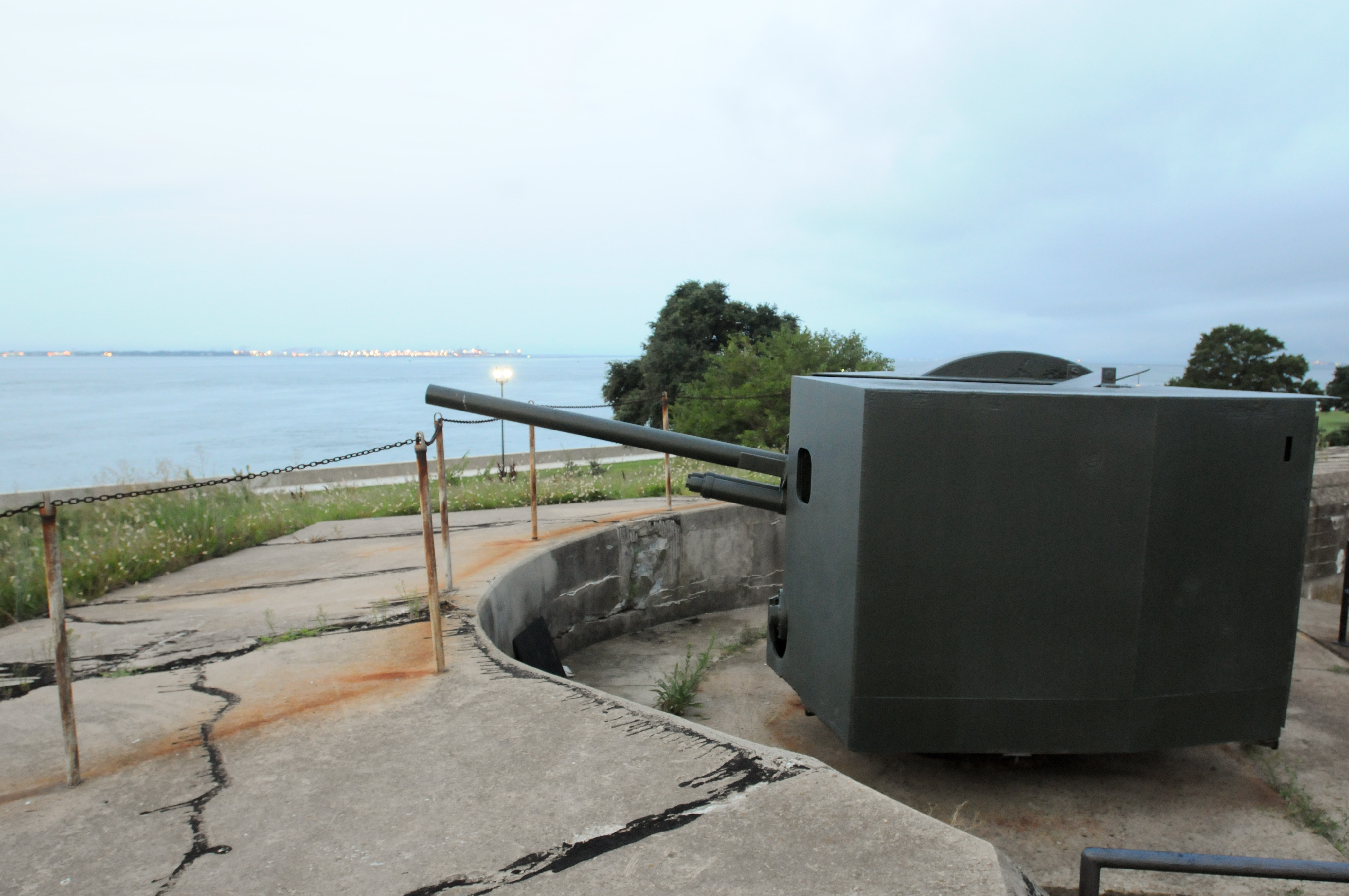 Gun on Battery Parrott, Fort Monroe, Va., U.S. Army Environmental Command photo by Neal Snyder . 90 mm M1 gun on T3/M3 fixed coast defense mount.